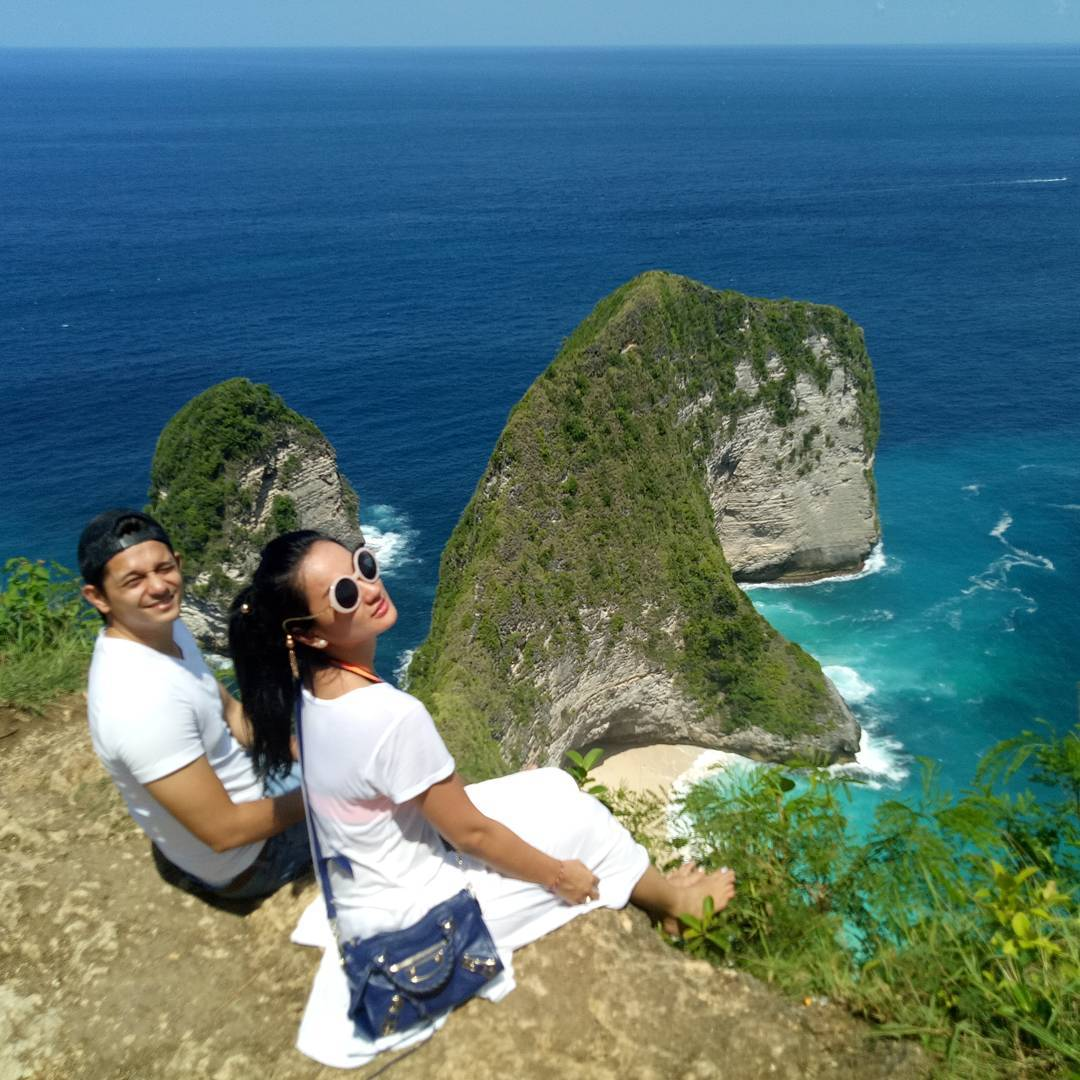 Klingking Beach Nusa Penida